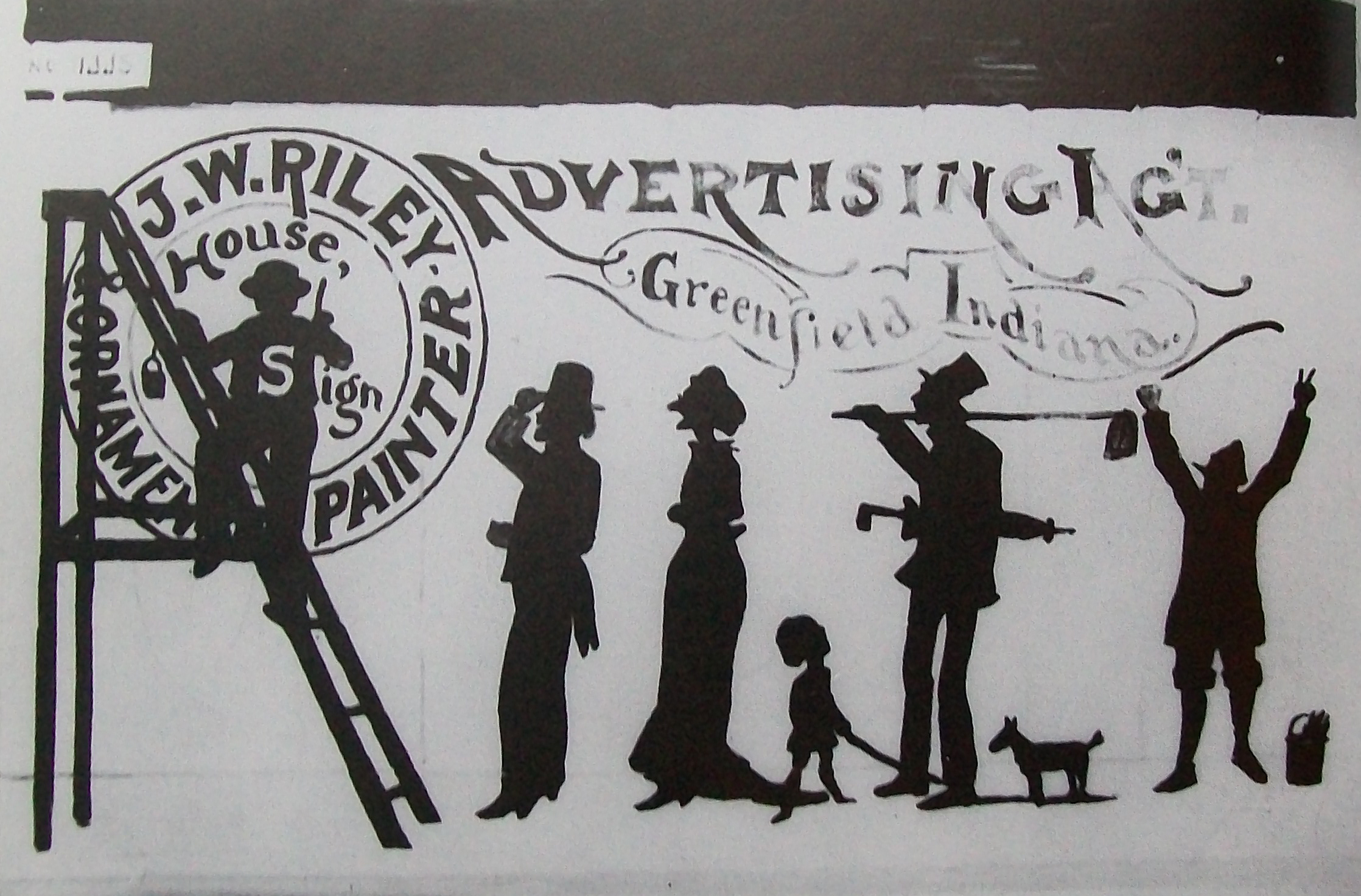 A sign advertising James Whitcomb Riley's service as a sign and house painter, his original buisness